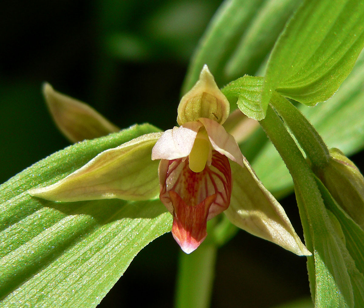 Epipactis gigantea in Pine Creek Canyon, Red Rock Canyon, Spring Mountains, southern Nevada (NNPS field trip)